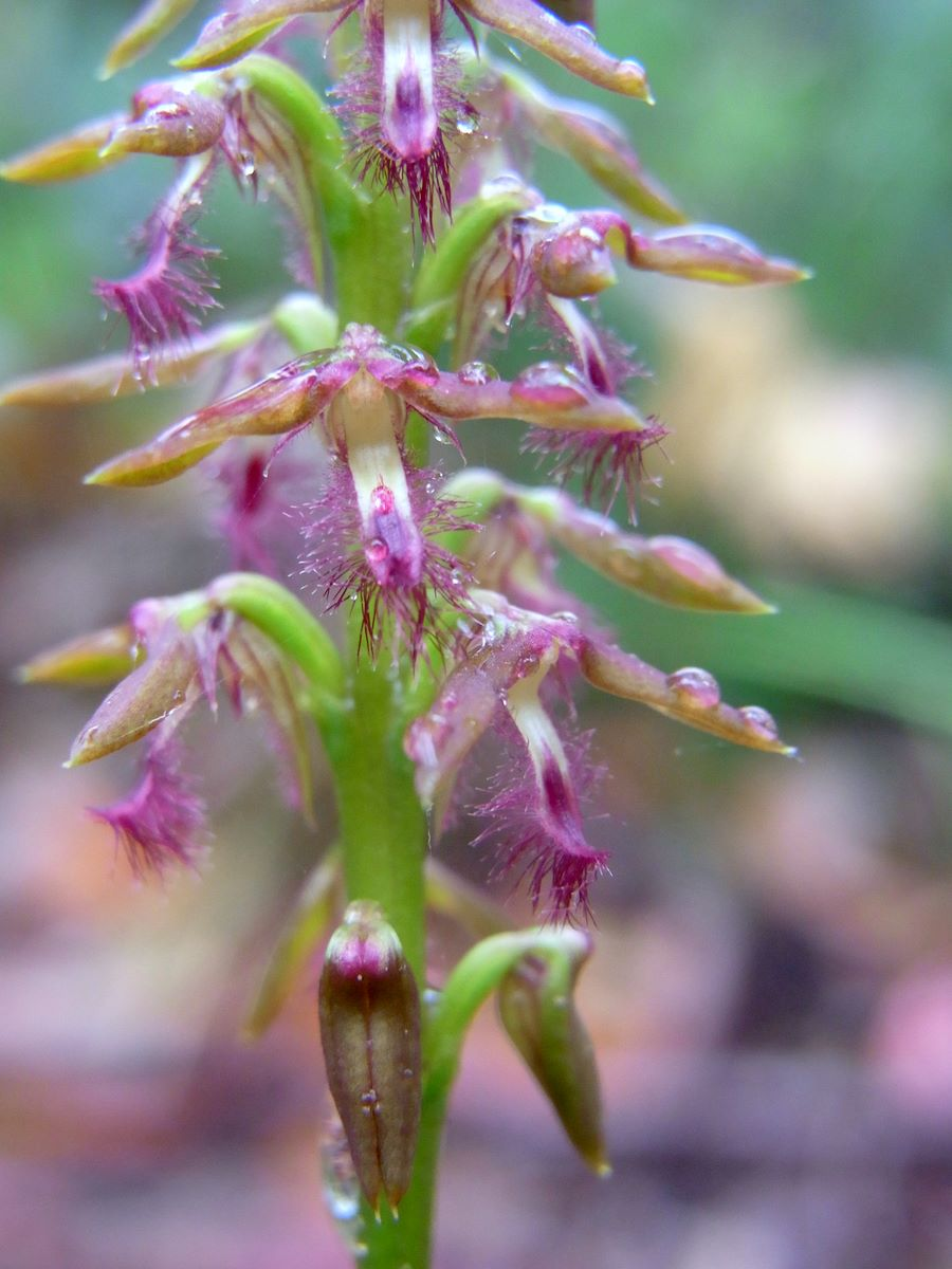 small orchid, Long Track, Ku-ring-gai Chase National Park, possibly Genoplesium fimbriatum